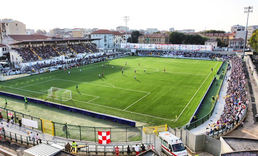 Panoramica Stadio